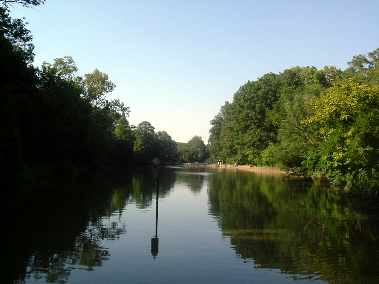 Burnet Woods, Clifton, Cincinnati. Steinsky, 11 Sep 2005.